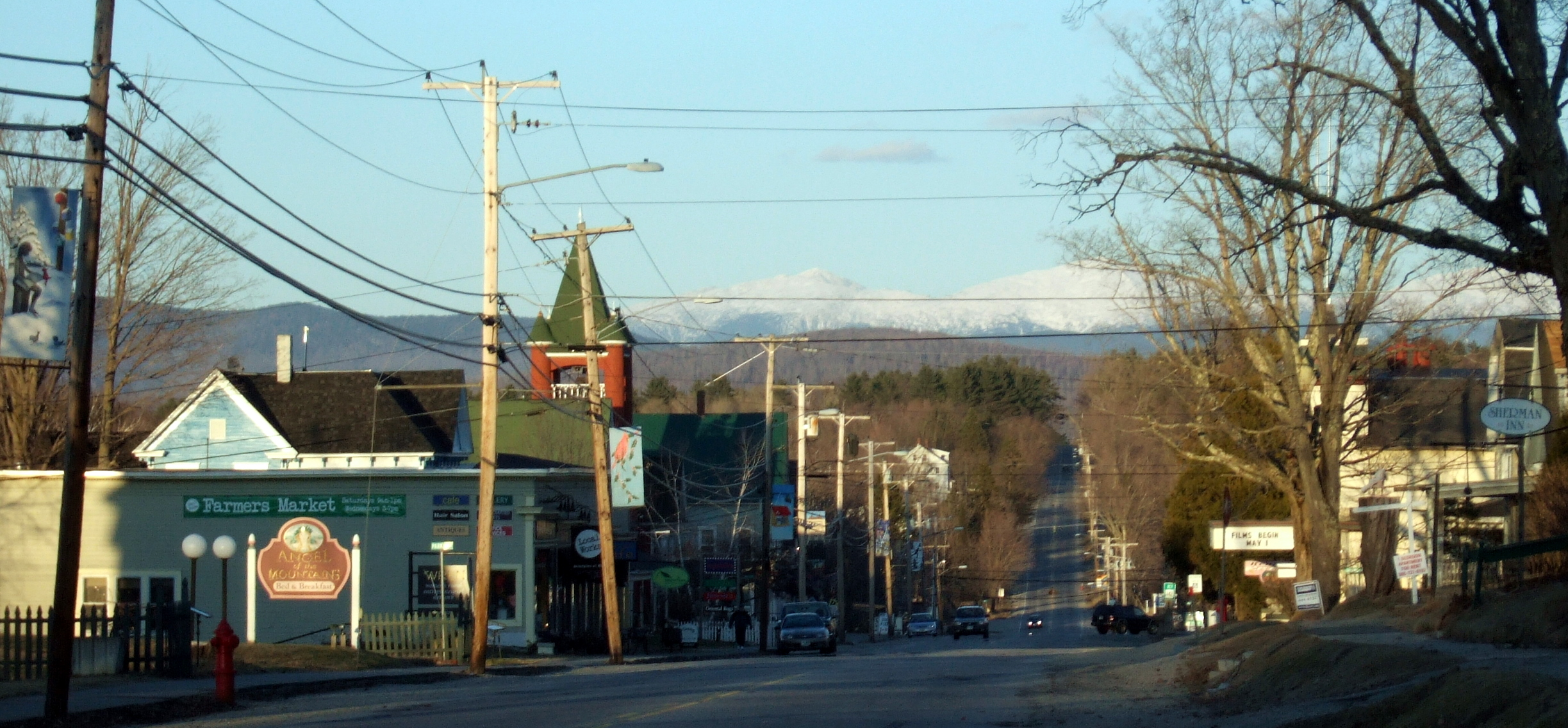 Main street of Bethlehem. Mt Washington is visible in the background.